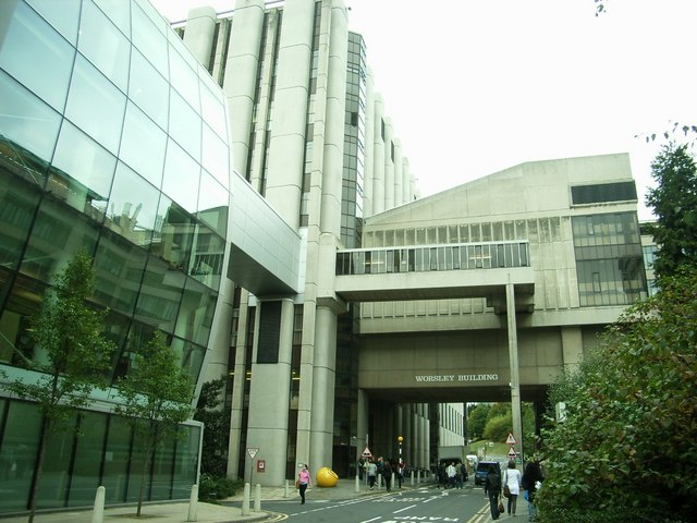 Worsley Building, Clarendon Way, Leeds Leeds University Medical and Dental Unit built in 1979.